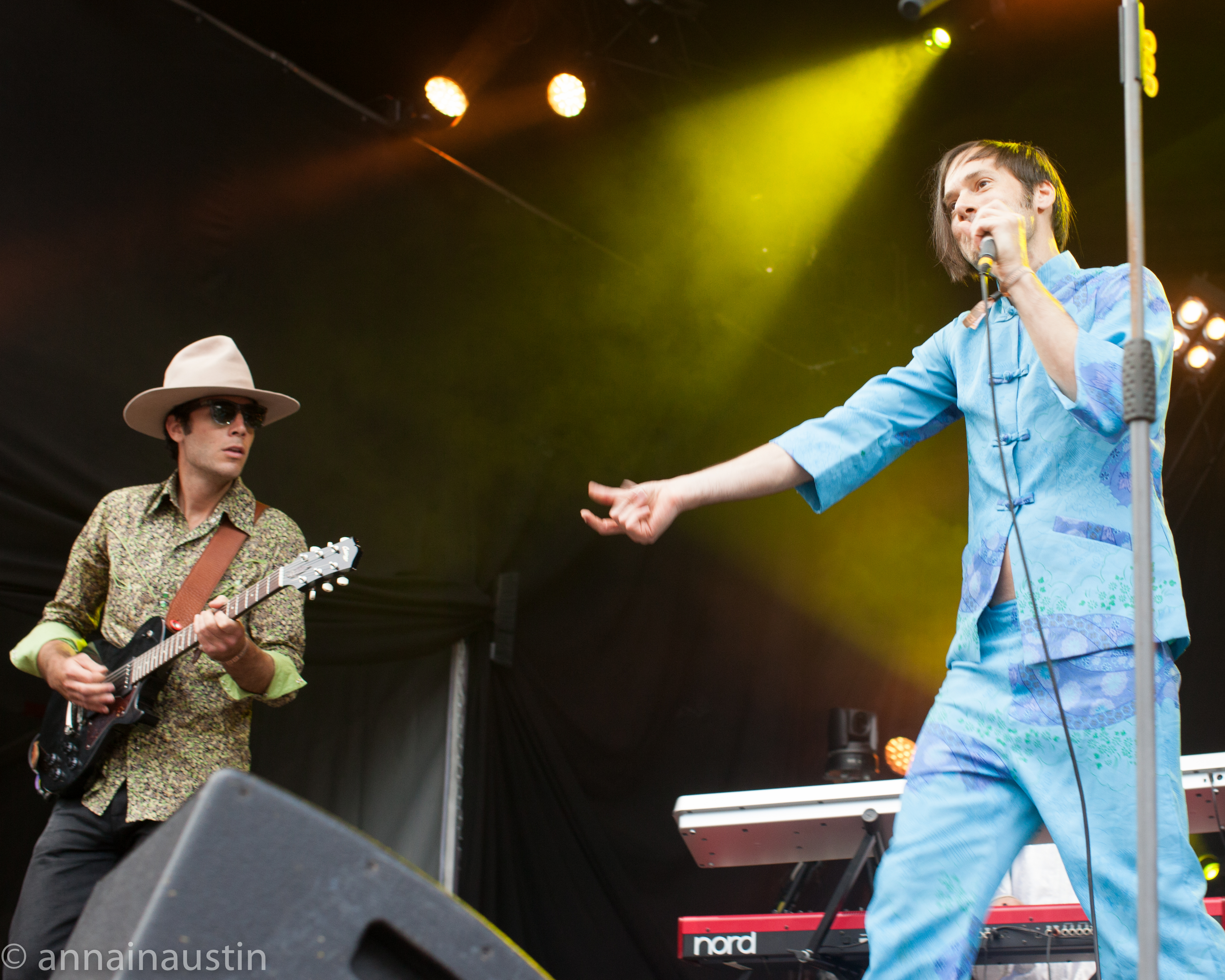 of Montreal , Positivus Music Festival, Latvia, July 2014--64.jpg